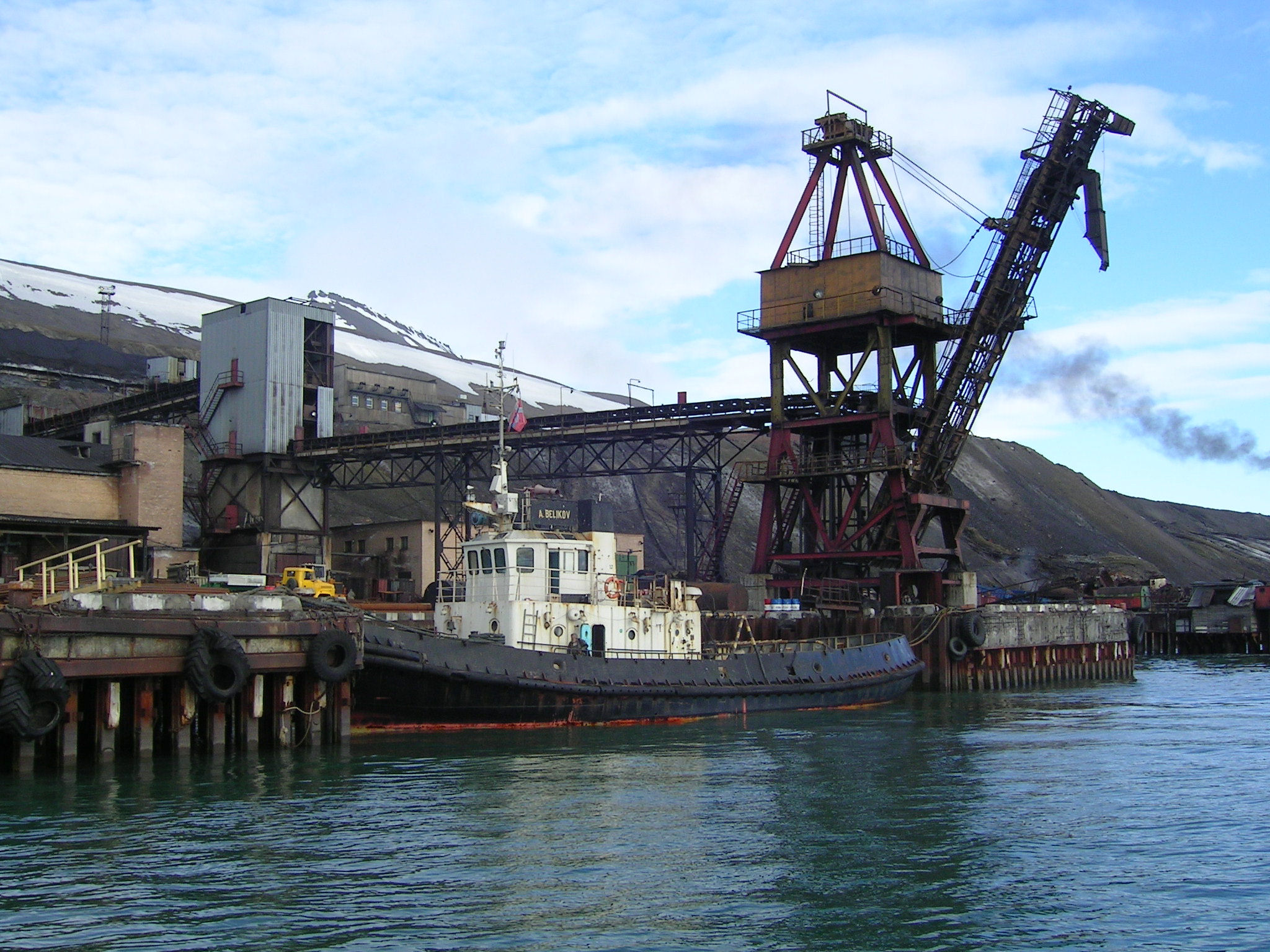 The port of Barenstburg